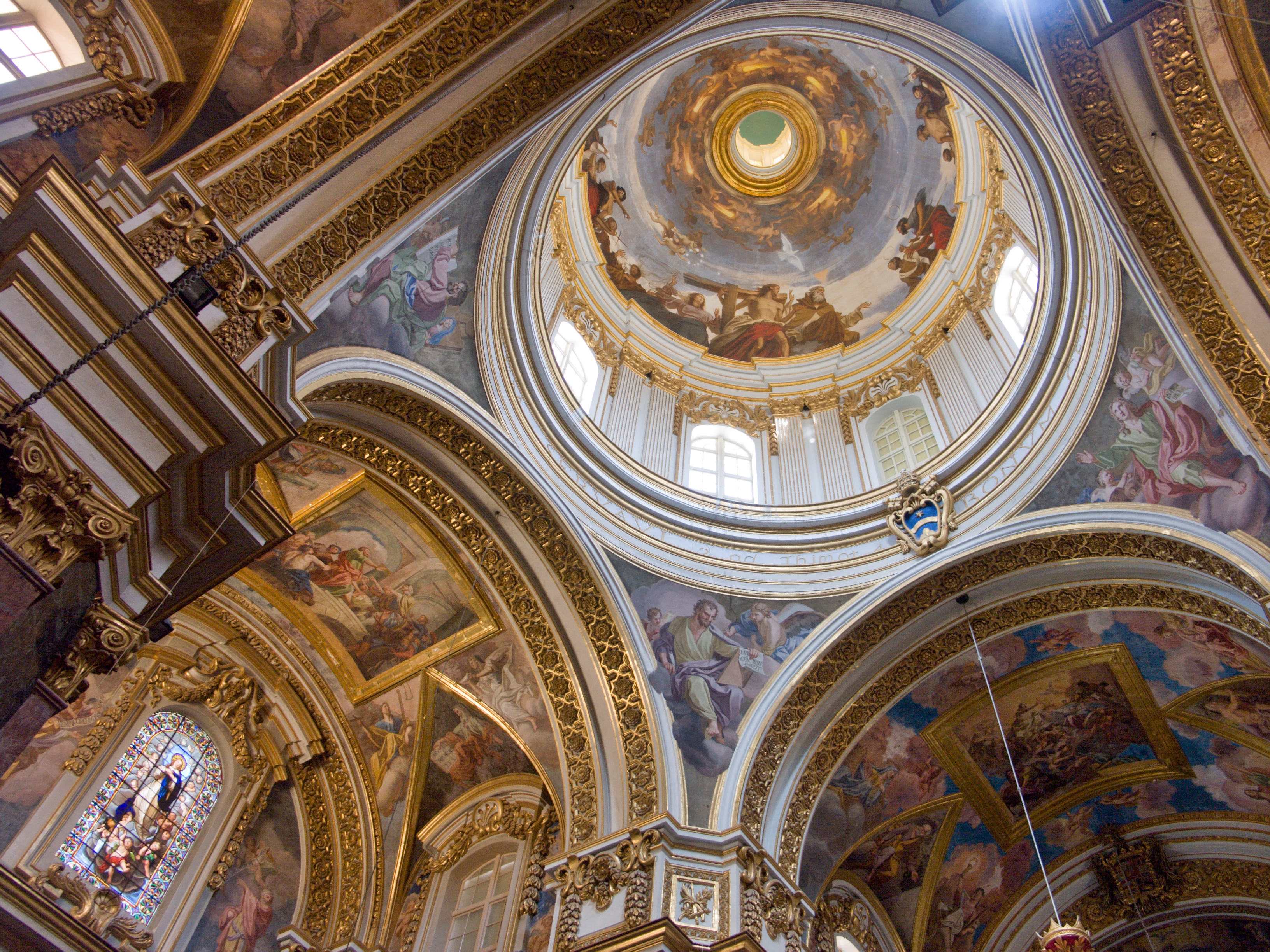 St. Paul's Cathedral in Mdina